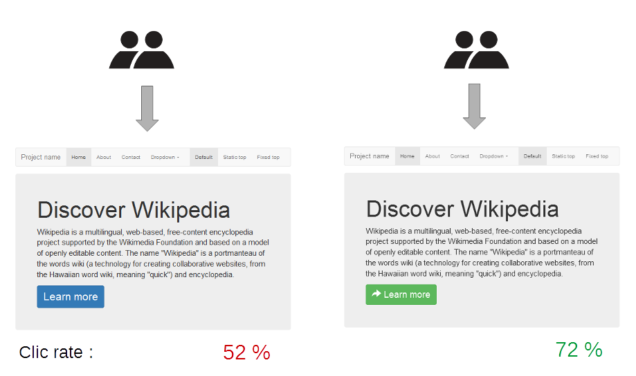 Simple example of A/B testing